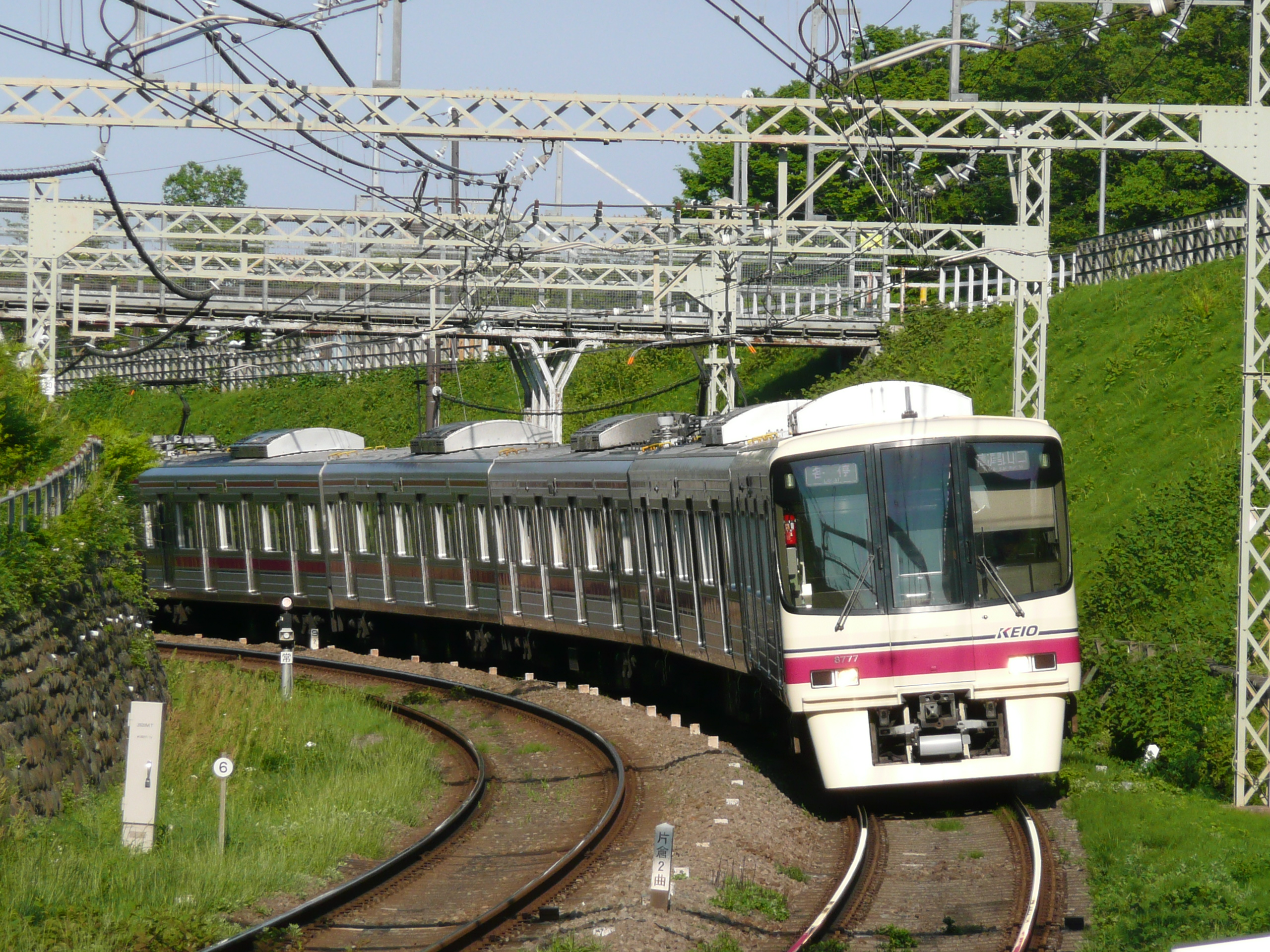 Keio 8000 series